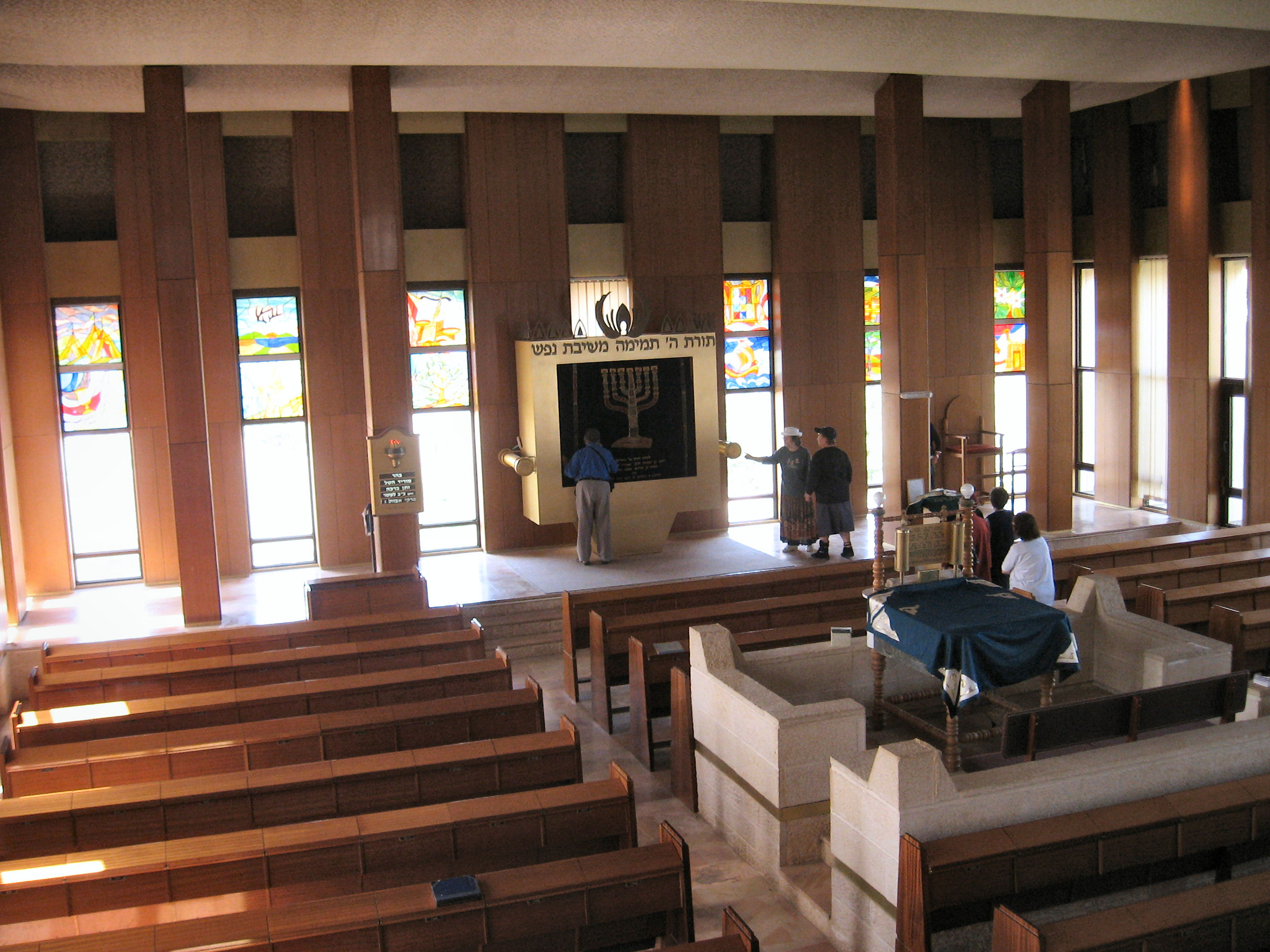 Synagogue_of_new_SHILO as MISCAN 1